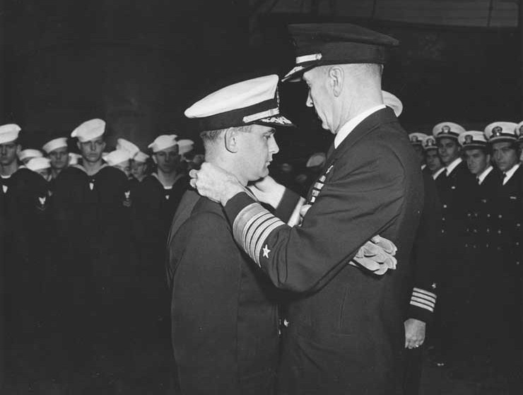 Photo #: 80-G-31578 Commander Bruce McCandless, USN Receives the Medal of Honor from Admiral Ernest J. King, USN, (Chief of Naval Operations and Commander in Chief, U.S. Fleet), in ceremonies on board USS San Francisco (CA-38), 12 December 1942. McCandless was awarded the medal for "conspicuous gallantry and exceptionally distinguished service" during the Naval Battle of Guadalcanal, 12-13 November 1942. Official U.S. Navy Photograph, National Archives collection